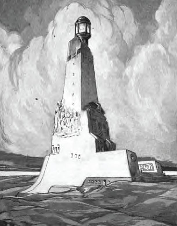 Depiction of the American monument marking their involvement in World War 1 proposed and built in Pointe de Grave near Bordeaux, France.